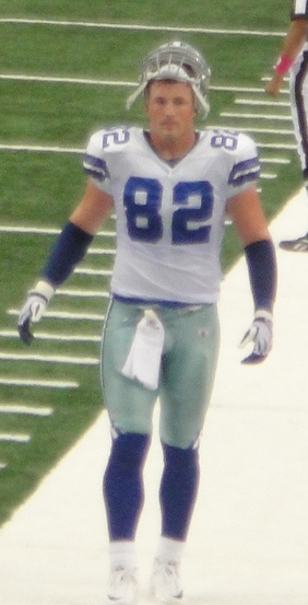 Jason Witten of the Dallas Cowboys